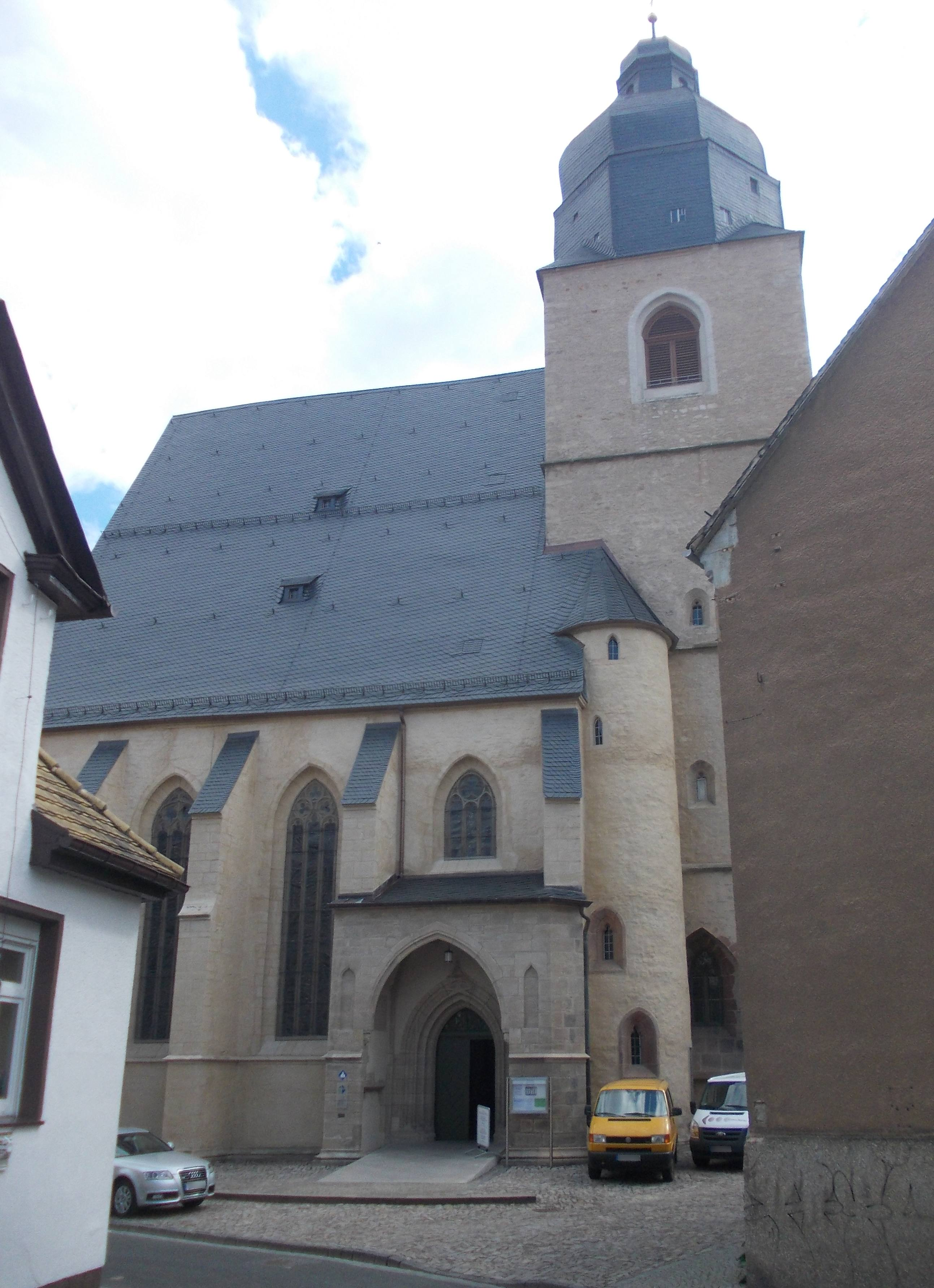 Saints Peter and Paul Church in Eisleben (Mansfeld-Südharz district, Saxony-Anhalt)